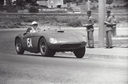 Entry #154 in the Trieste-Opicina hillclimb on June 29, 1955 was a 1954 Ferrari 250 Monza s/n 0432M license "MI 247321", driven by "Kammamuri" (nickname for Erasmo Simeoni) who ended 4th overall.[1]